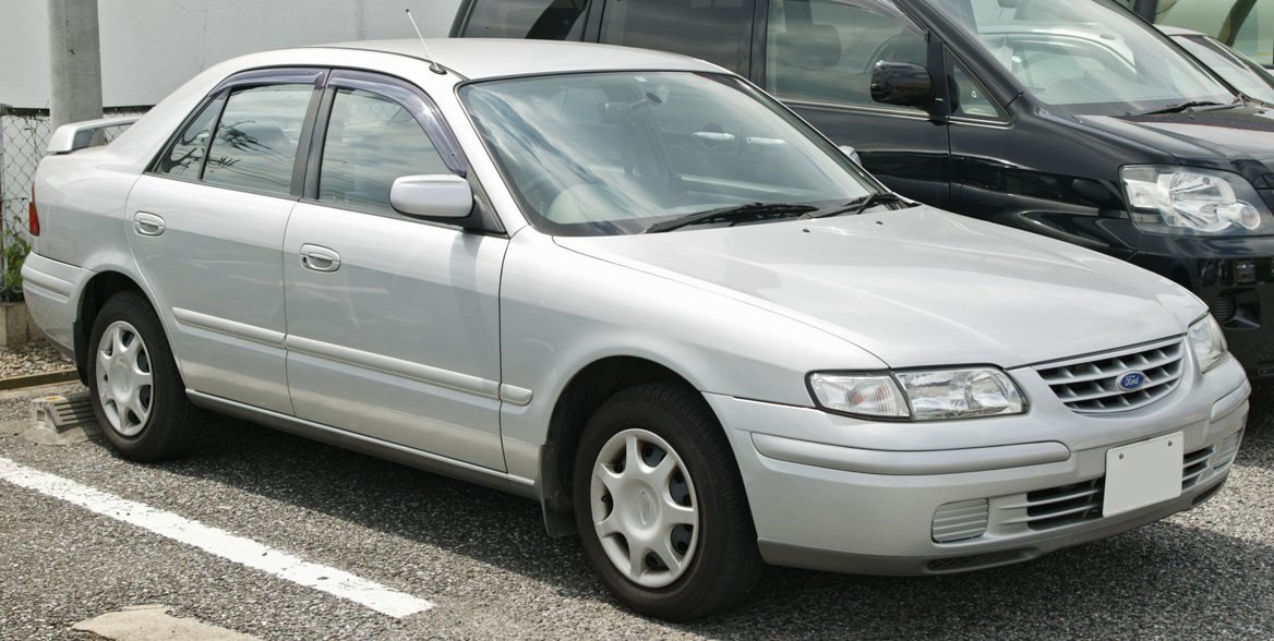 5th generation Ford Telstar ( 1997 - 1999 )